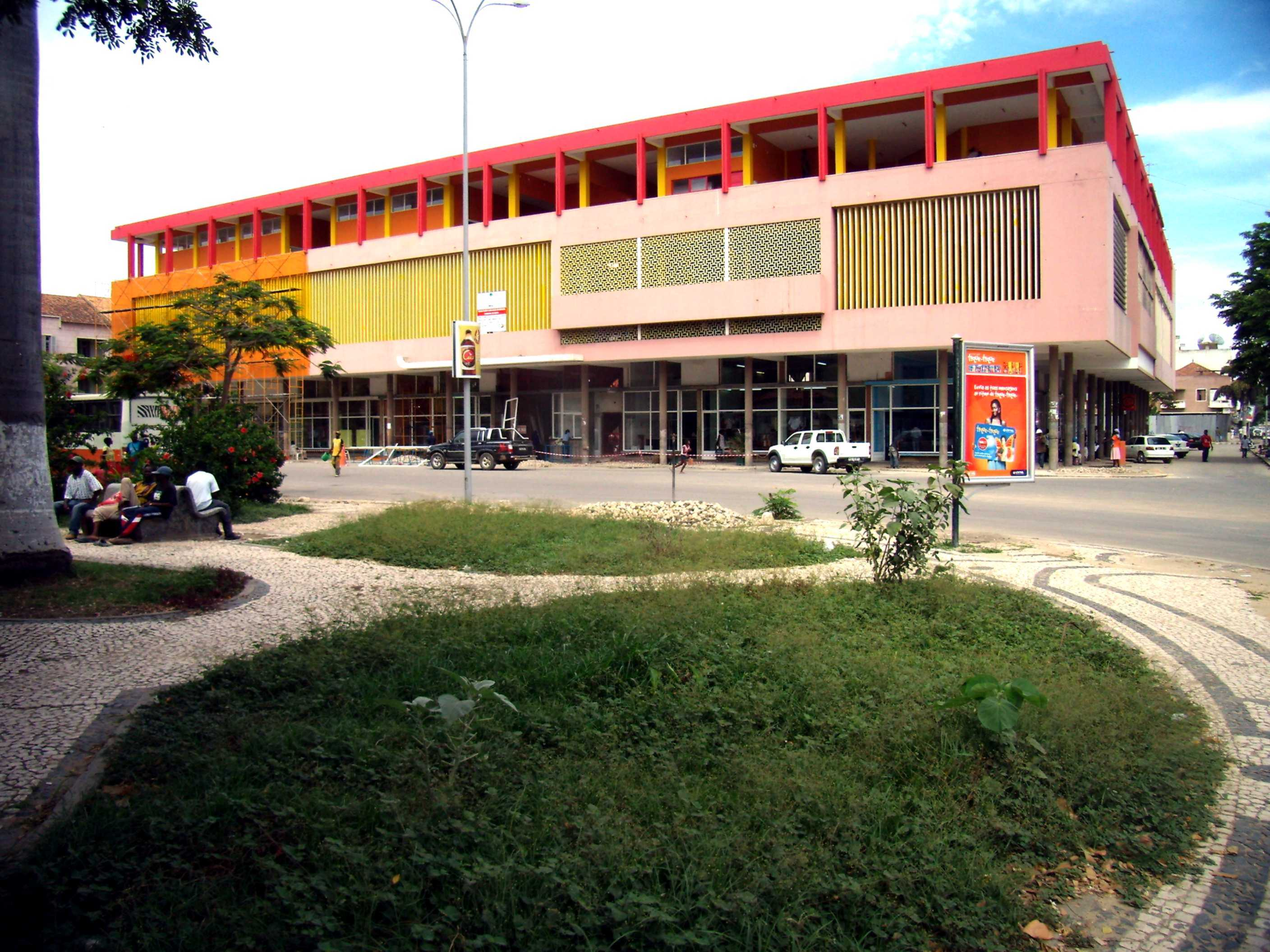 Municipal Market, Lobito, Angola